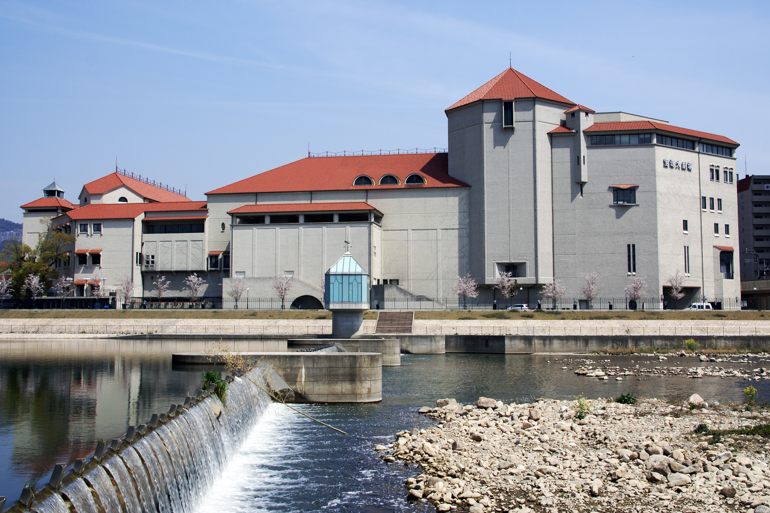 Takarazuka Grand Theater and Bow Hall in Takarazuka, Hyogo prefecture, Japan